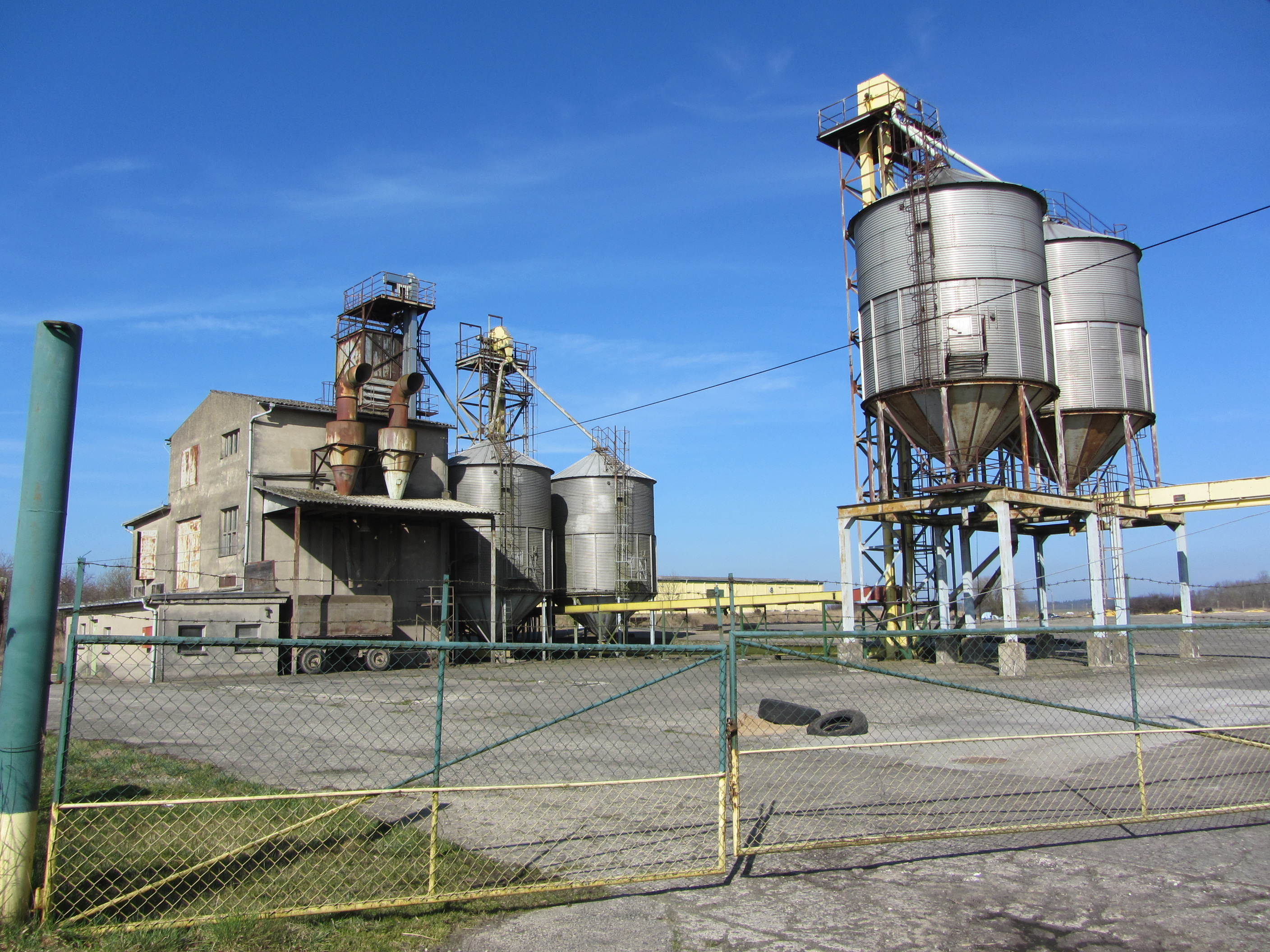 Warehouse of the Getreide AG in Brüel, district Ludwigslust-Parchim, Mecklenburg-Vorpommern, Germany